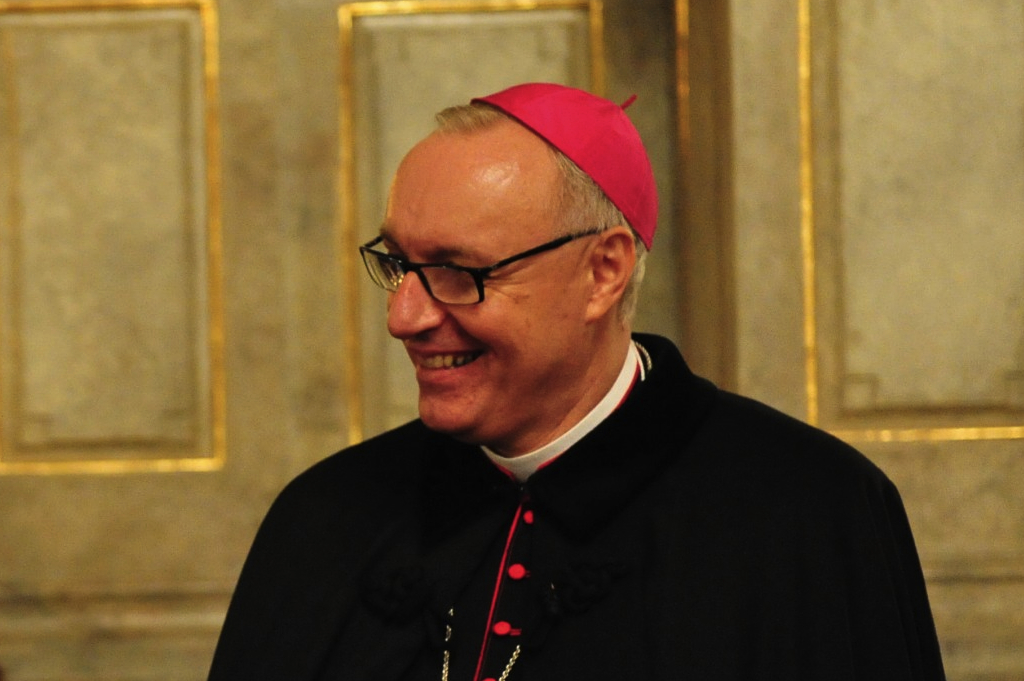 Ägidius Zsifkovics.